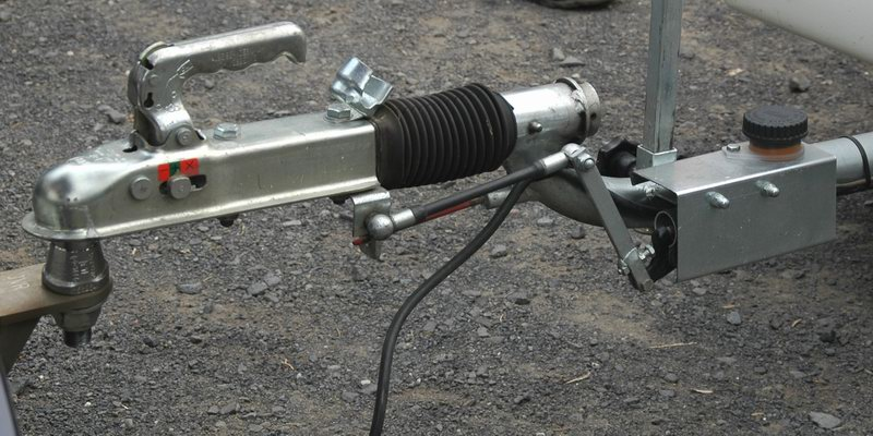 Motorcycle trailer brake